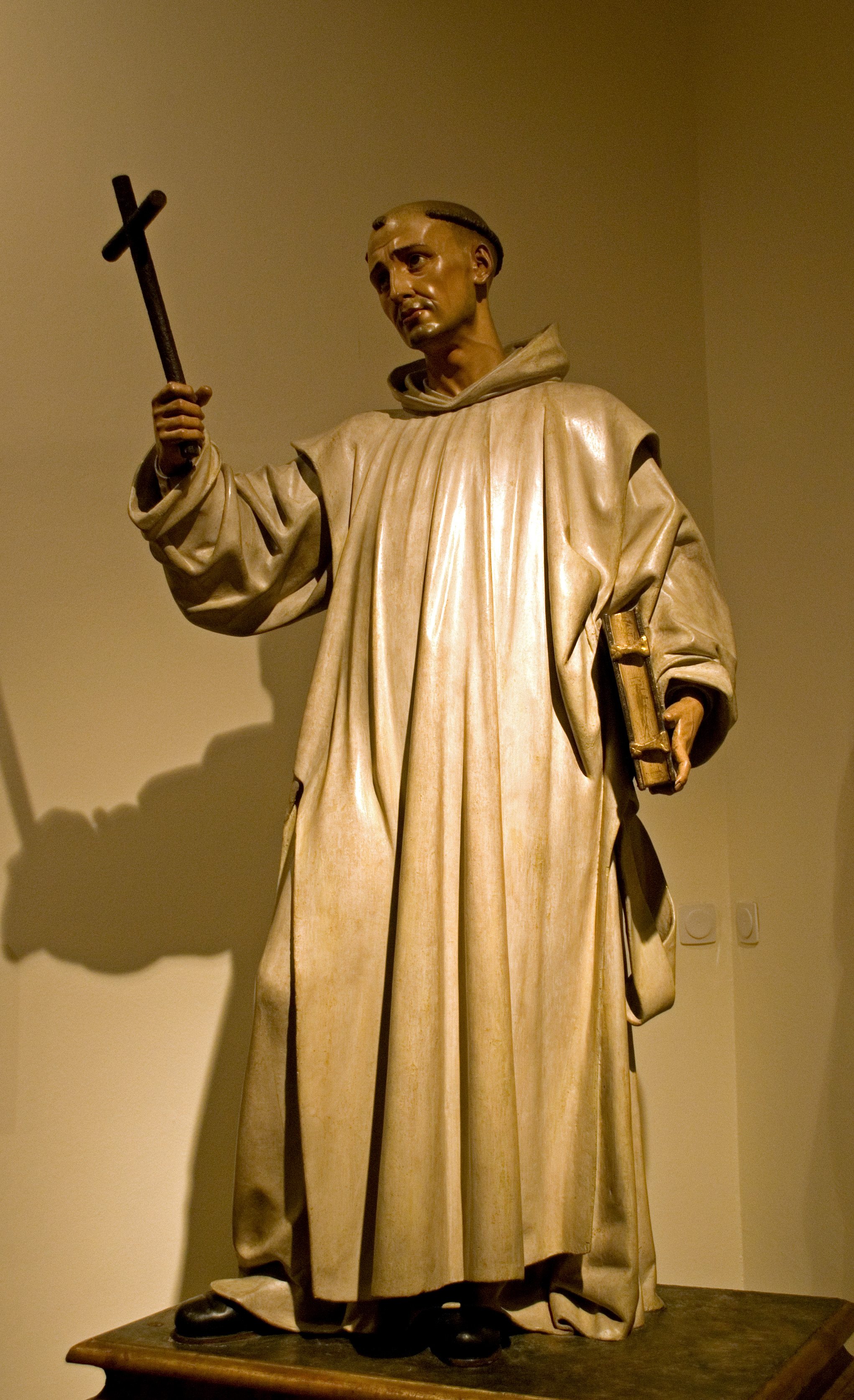 S